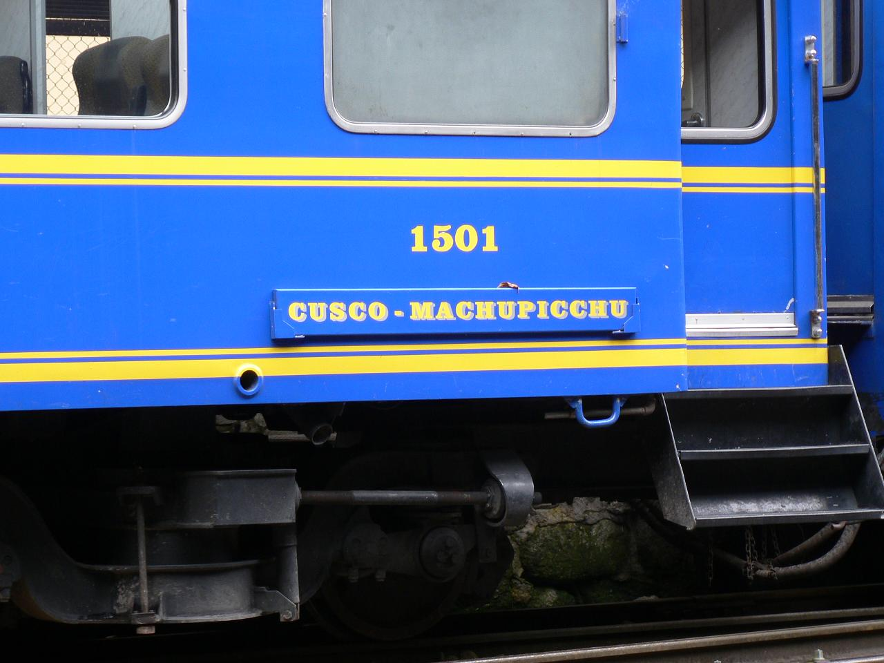 Signage on side of Machu Picchu to Cusco PeruRail train